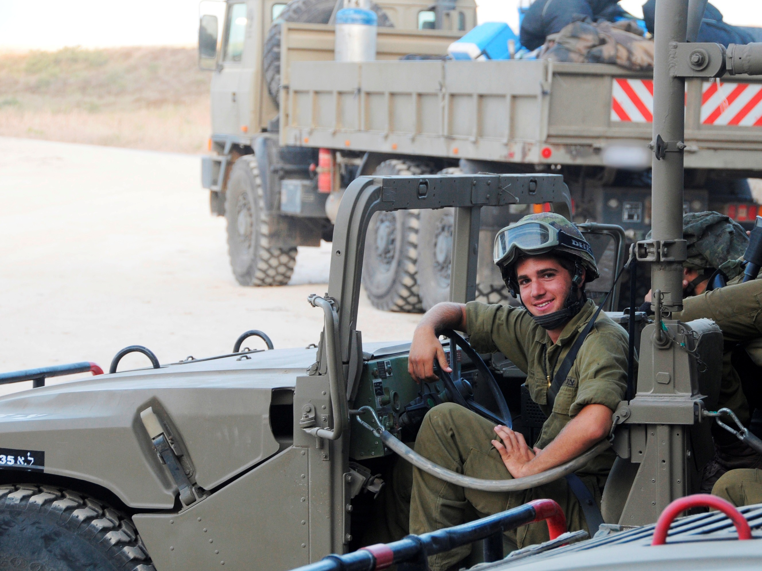 August 31, 2011 The IDF Paratrooper Infantry Brigade has a national reputation of operating under difficult and trying conditions, day or night. Photo by Cpl. Shay Wagner, IDF Spokesperson Unit.